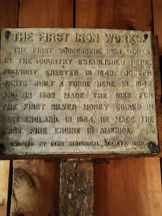 Erected by the Lynn Historical Society in 1898, the marker commemorated Saugus Iron Works and Joseph Jenckes (Jenks)